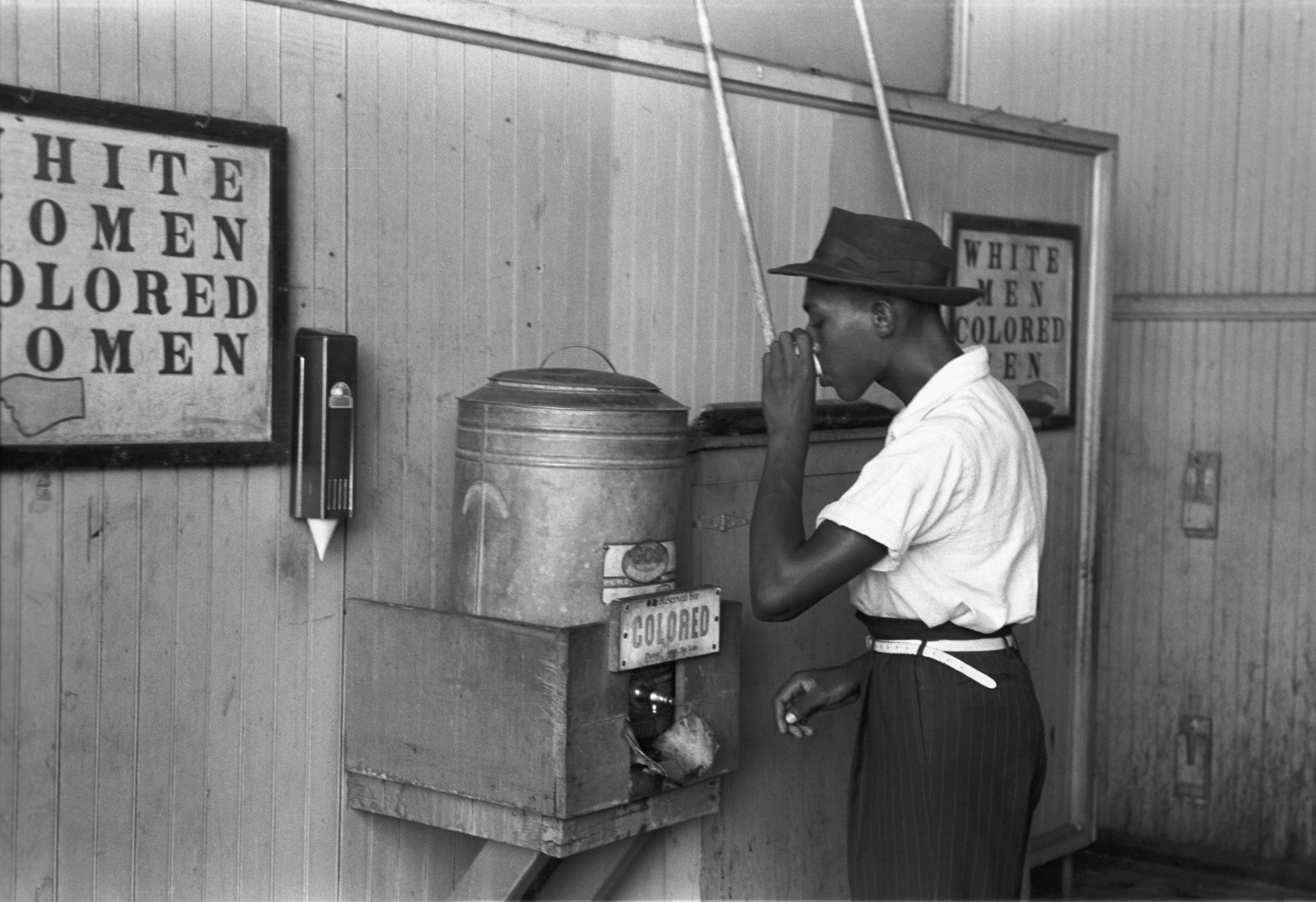 "Colored" drinking fountain from mid-20th century with African-American drinking (Original caption: "Negro drinking at "Colored" water cooler in streetcar terminal, Oklahoma City, Oklahoma").